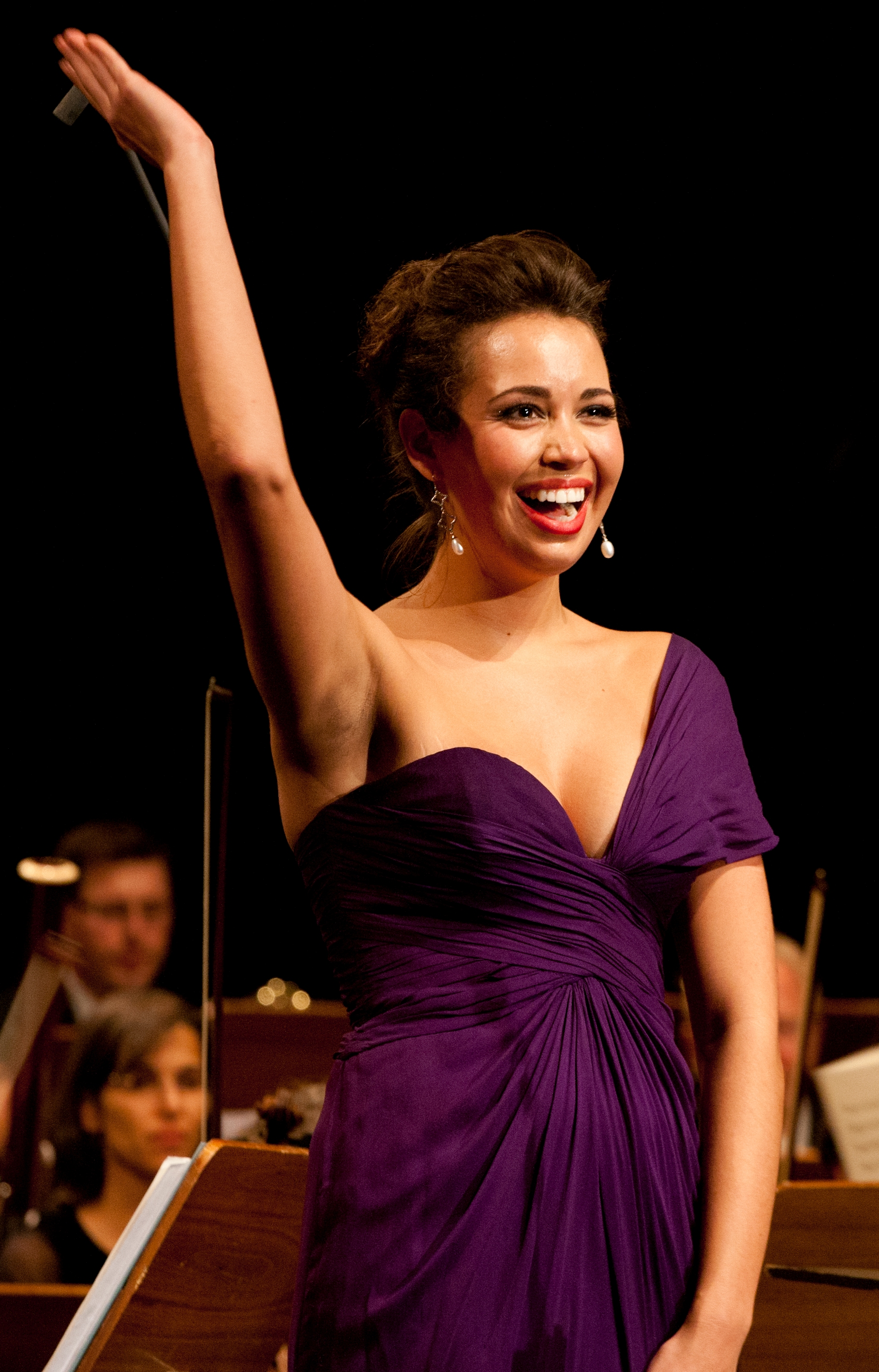 NEUE STIMMEN 2013 Nadine Sierra in Stadthalle Gütersloh 12.10.2013